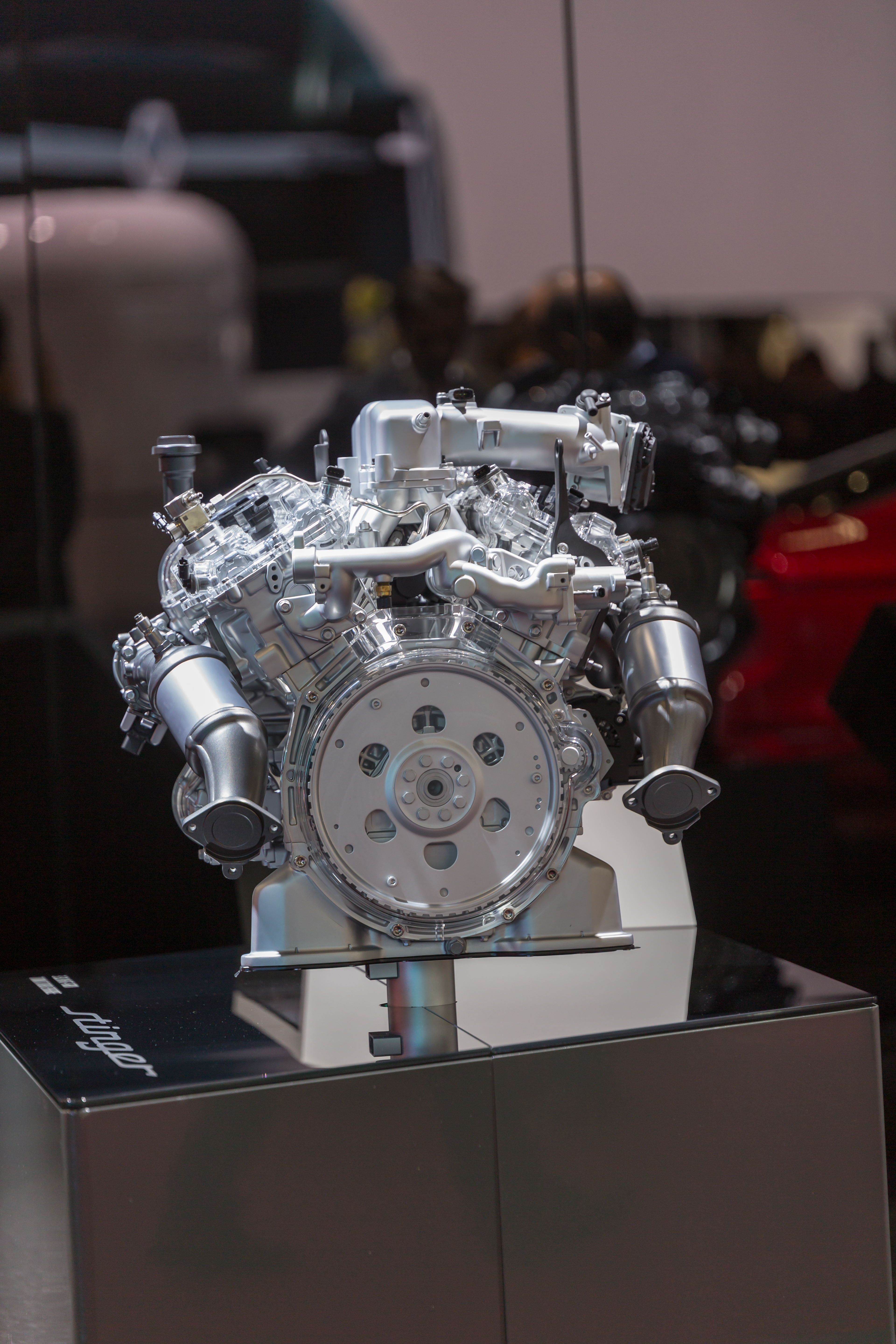 Mondial Paris Motor Show 2018